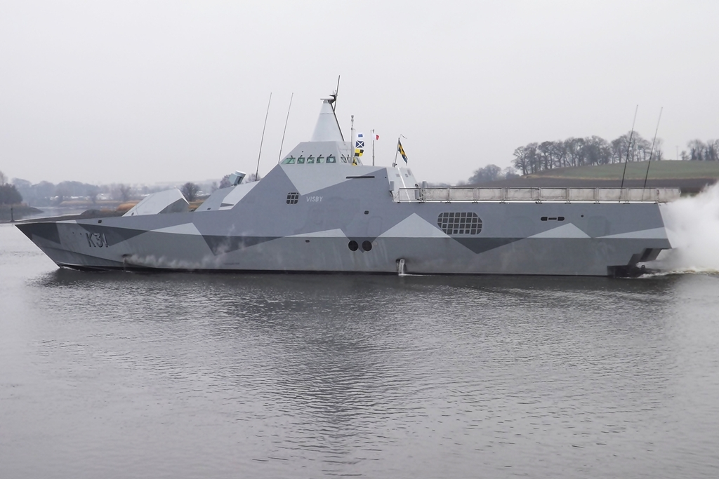 K31 HSwMS Visby, a Visby-class Corvette of the Swedish Navy